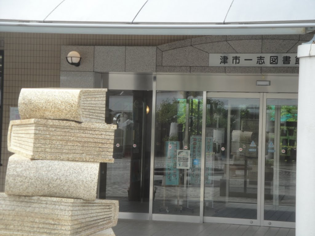 This is Tsu City Ichishi Library in Tsu, Mie, Japan.